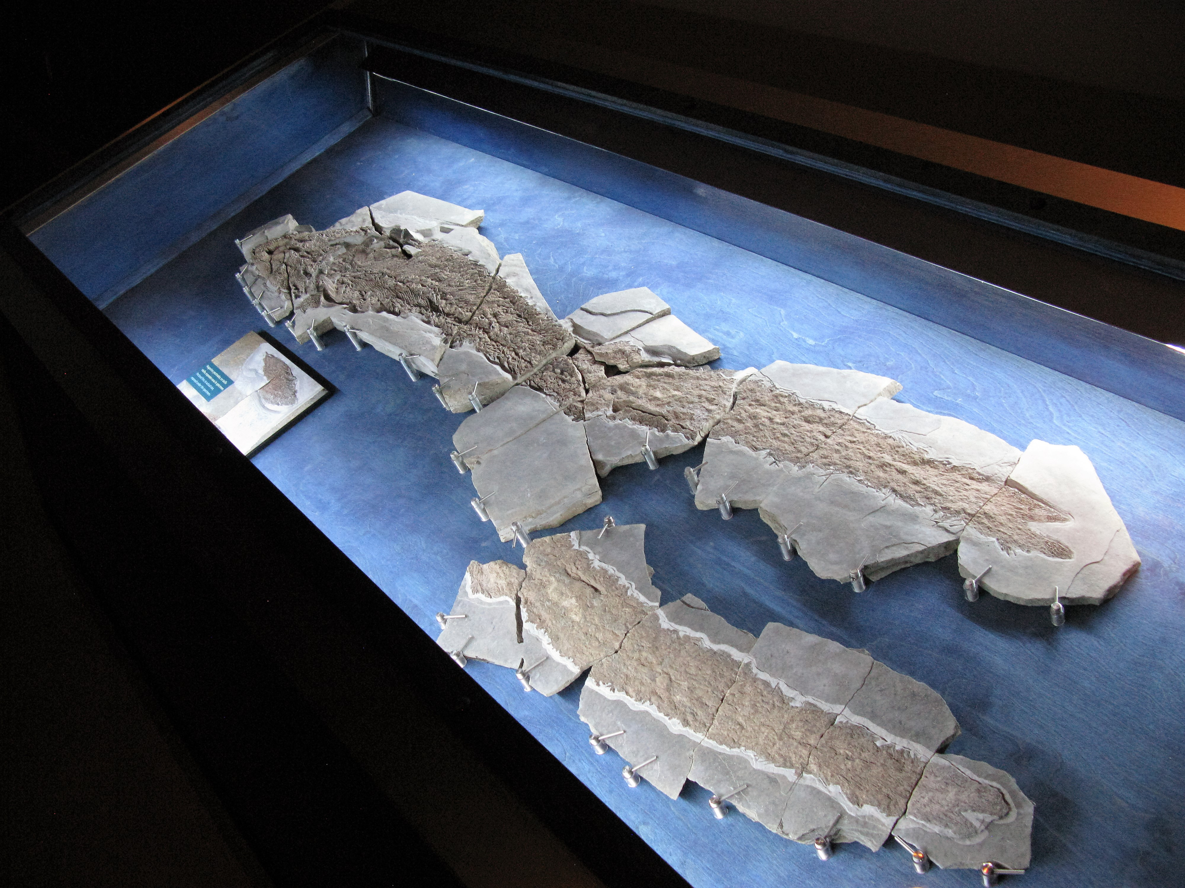 Elpistostege watsoni on display at the Miguasha National Park.